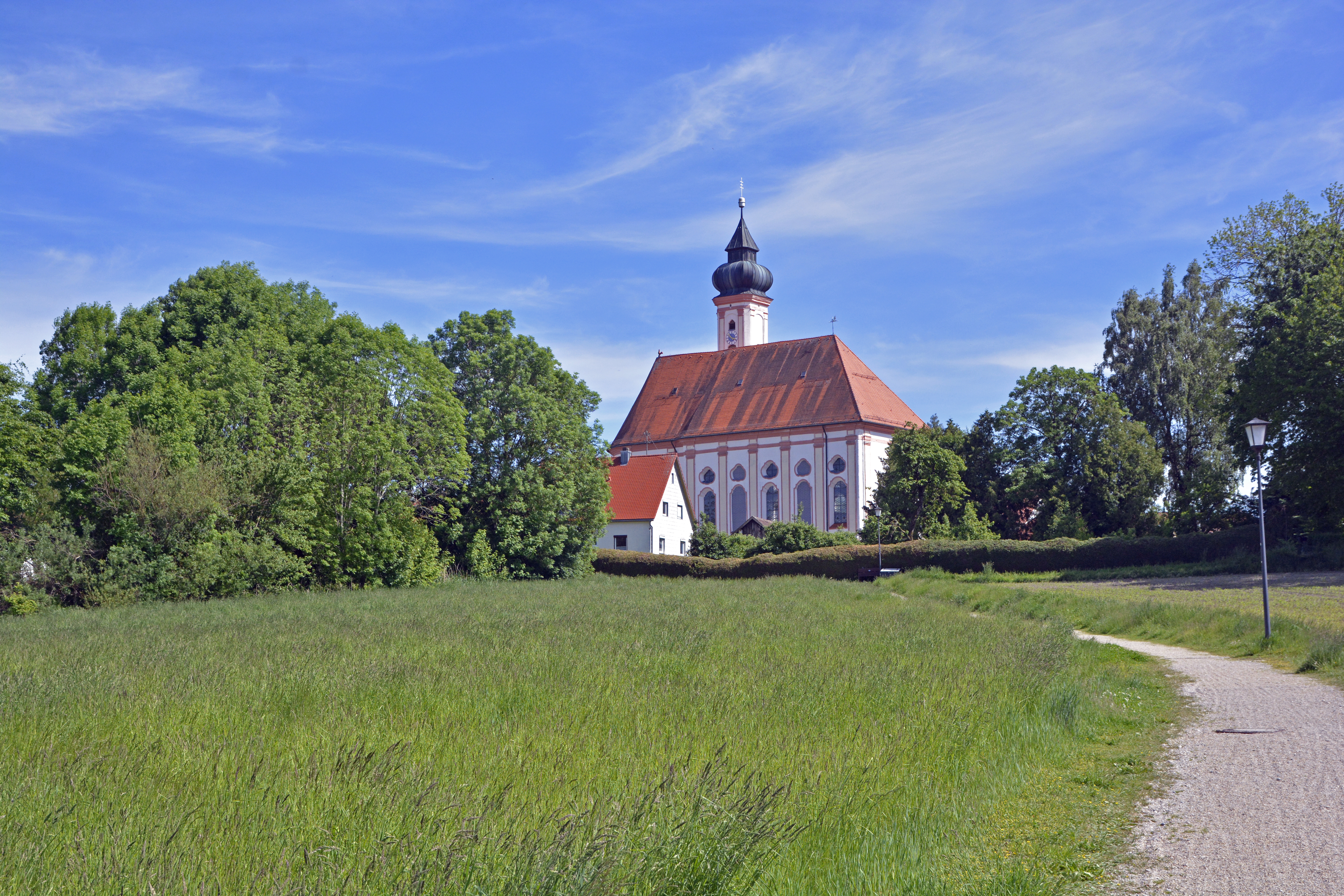 St. Jakobus Church(Vierkirchen, Upper Bavaria) (view from northwest)